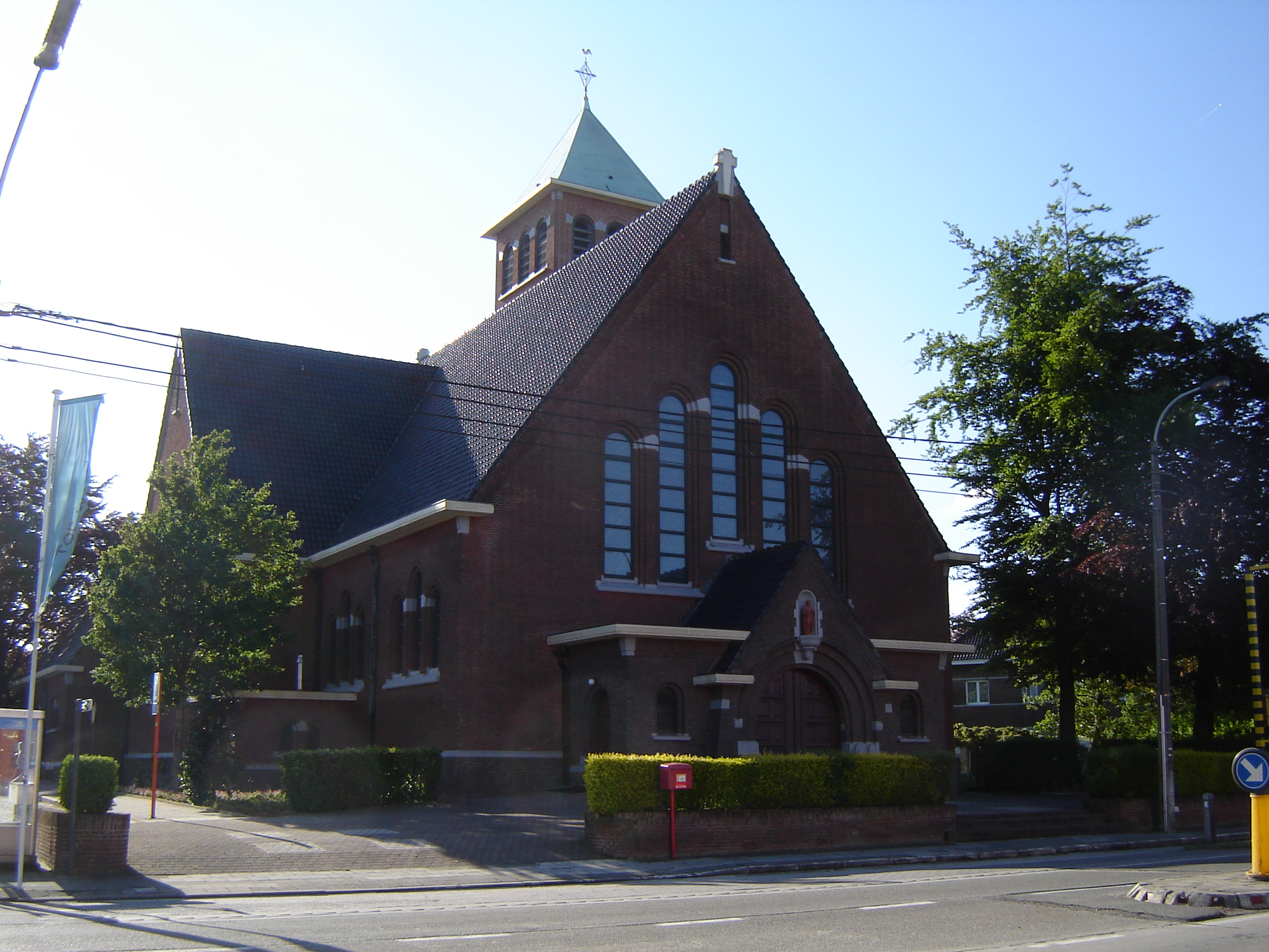 Church of Saint Henry, in Zilverberg, in Rumbeke, Roeselare, West Flanders, Belgium